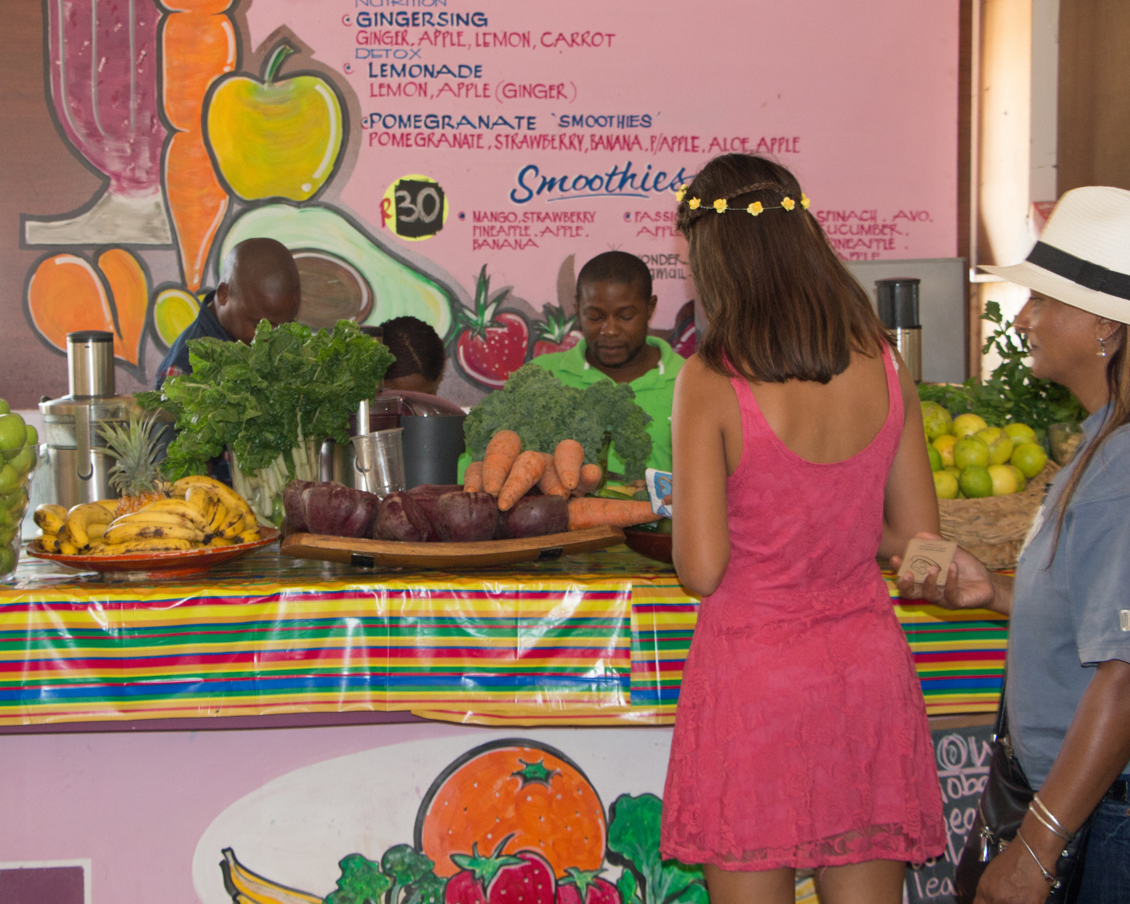 Wonder Juices smoothie bar at Root44 Market, Stellenbosch, South Africa